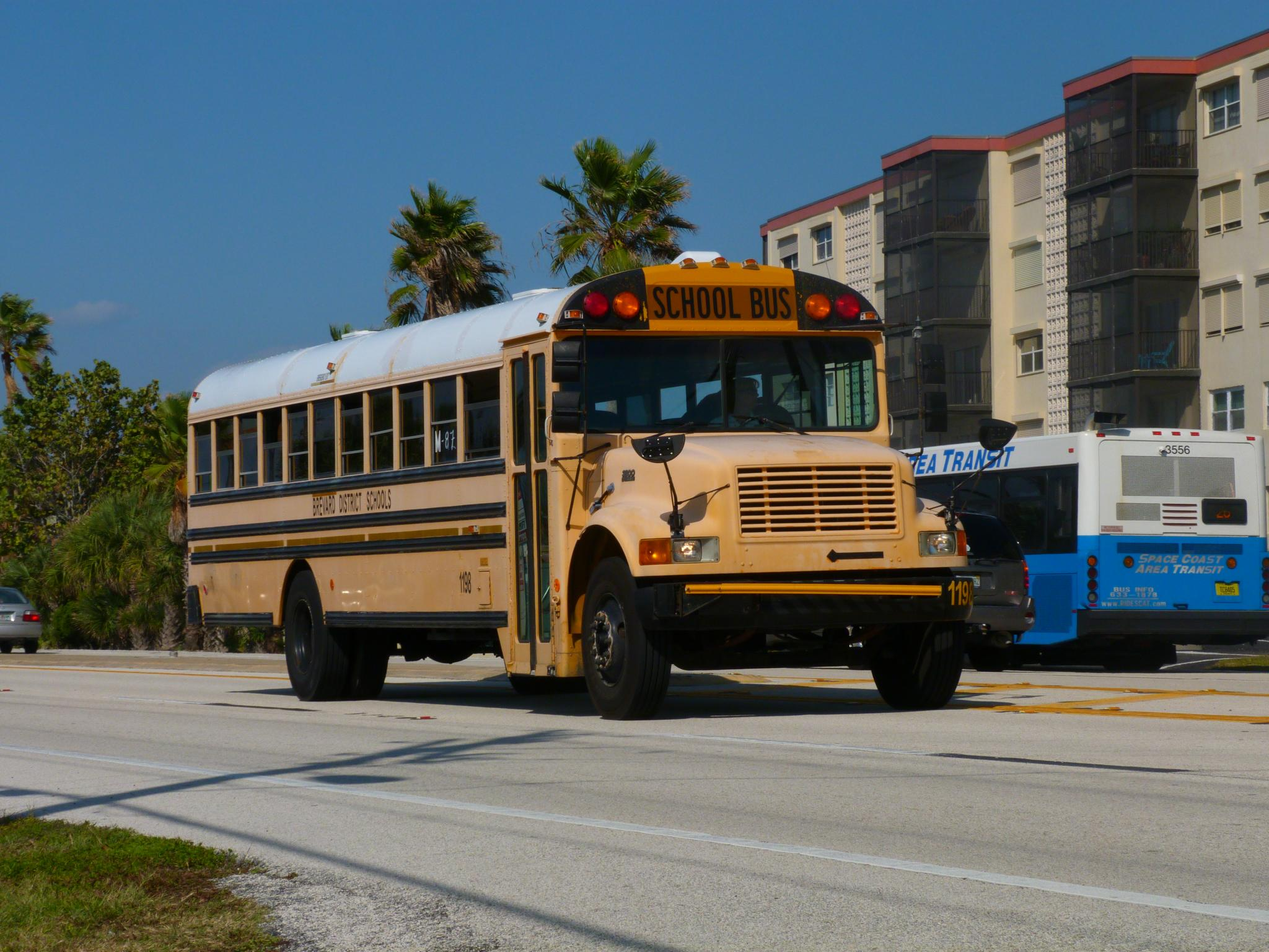 Front 3/4 view of a mid-1990s conventional-style school bus operated by Brevard District Schools in Florida. The bus is a International 3800 chassis with a 1996-1999 Crown by Carpenter Classic body.